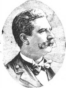 Jackson Whipps Showalter (chess player)